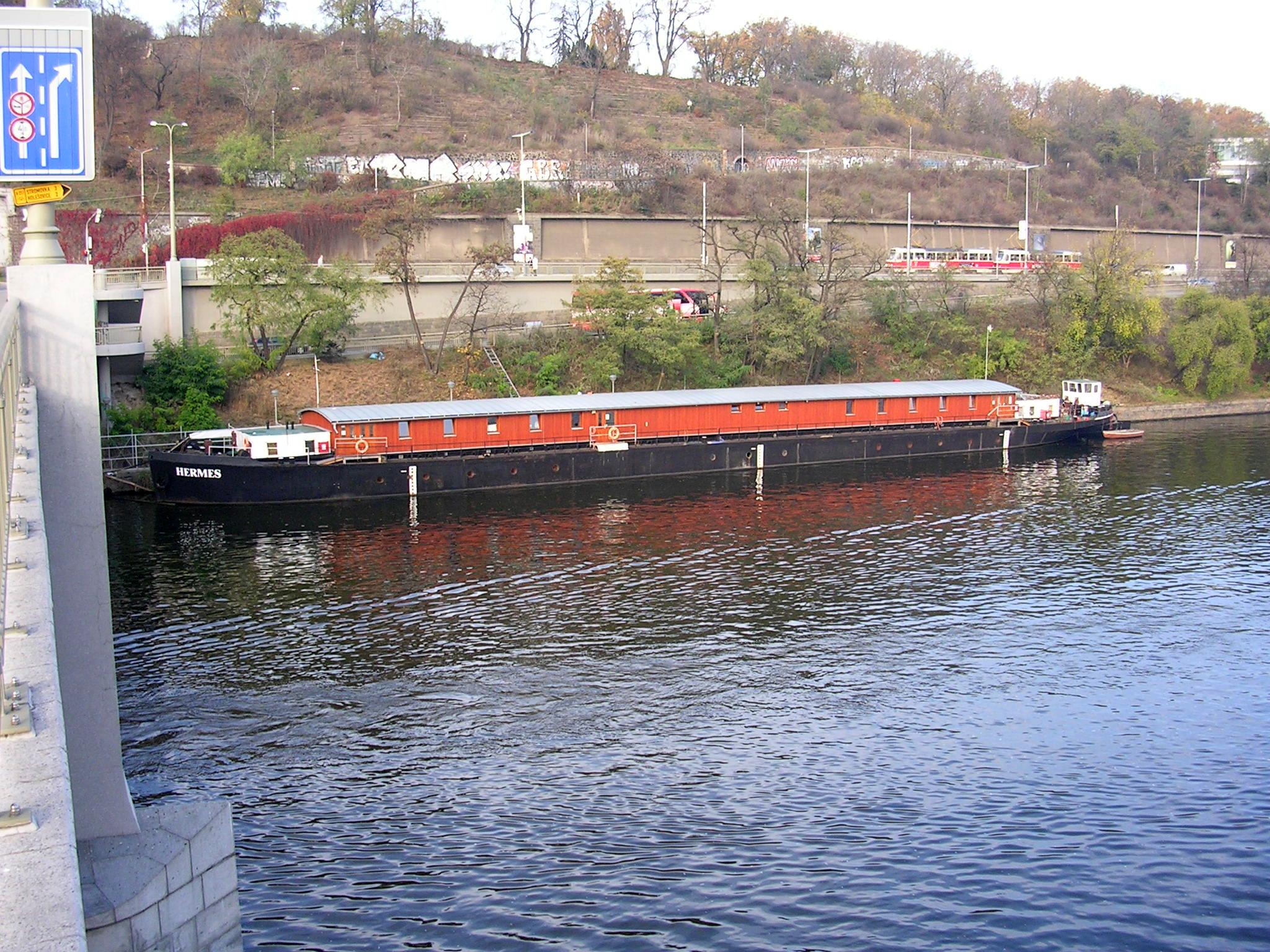 Holešovice, Prague. Bostel Hermes.